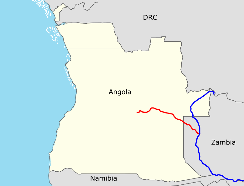 The Lungwebungu River (red) and part of the Zambezi River (blue); (simplified)